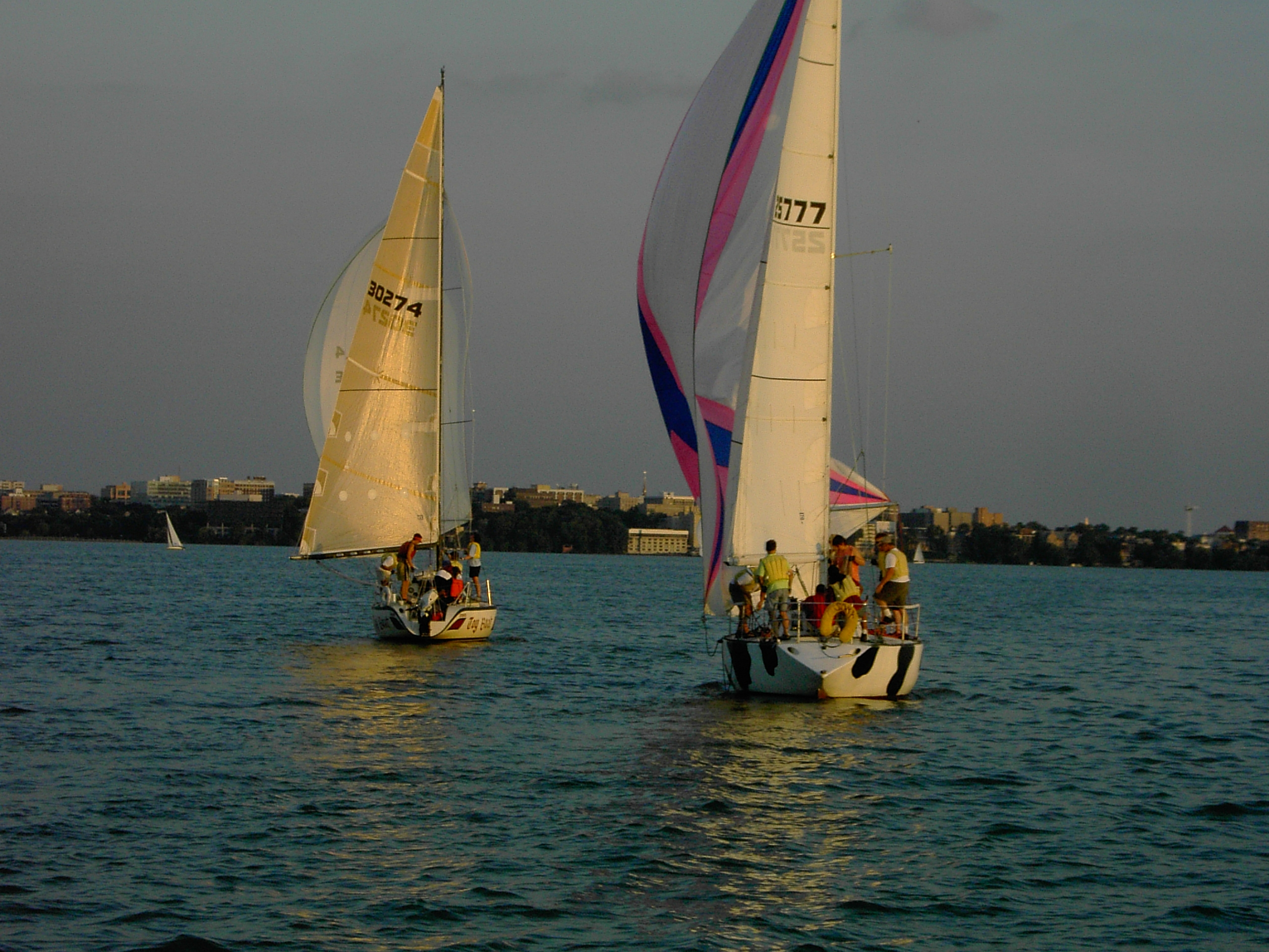 Sailboats on Lake Mendota, Madison, Wisconsin, United States.